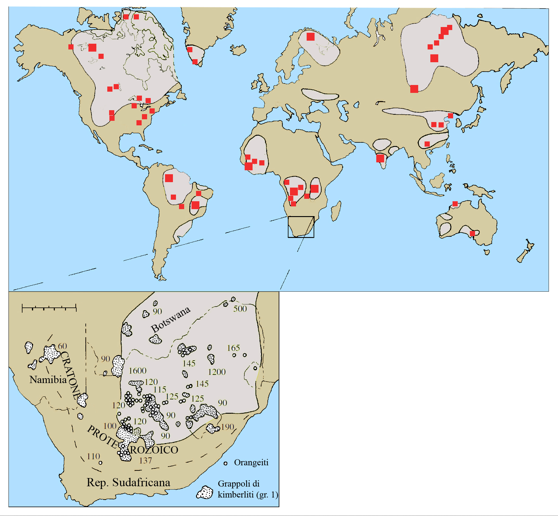 366/5000 World distribution of Kimberlites group 1 and orangeites (group 2). In a lighter color the extension of the archean cratons. The larger squares indicate diamond kimberlites. In the map in detail the clusters of kimberlites and kimberlitic diatremes ( with their age in Ma) in the Kaapvaal Craton (southern Africa).